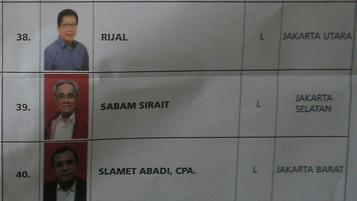 A list of candidates for the Regional Representative Council, from the DKI Jakarta constituency.